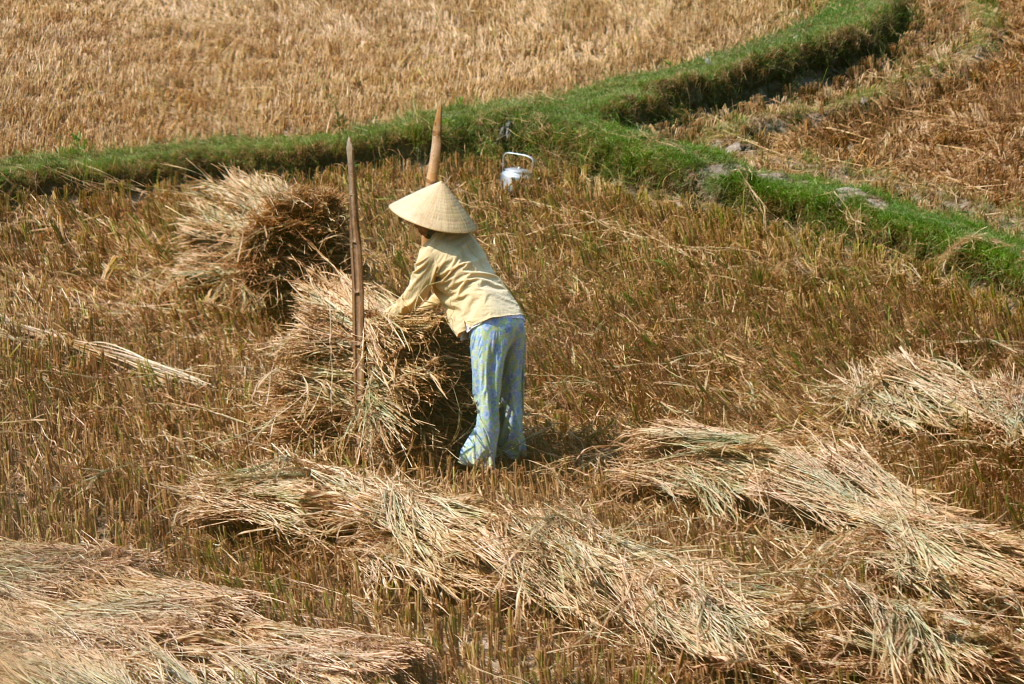 farmer in Quang Ngai Province, Vietnam